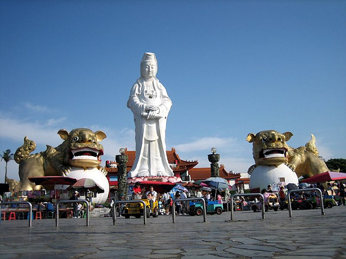 Guanyin statue in Zhongzheng Park.